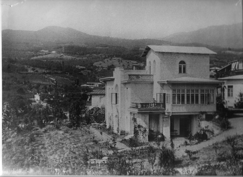 Autka, house of Chekhov. Yalta district, Crimea, 1900.